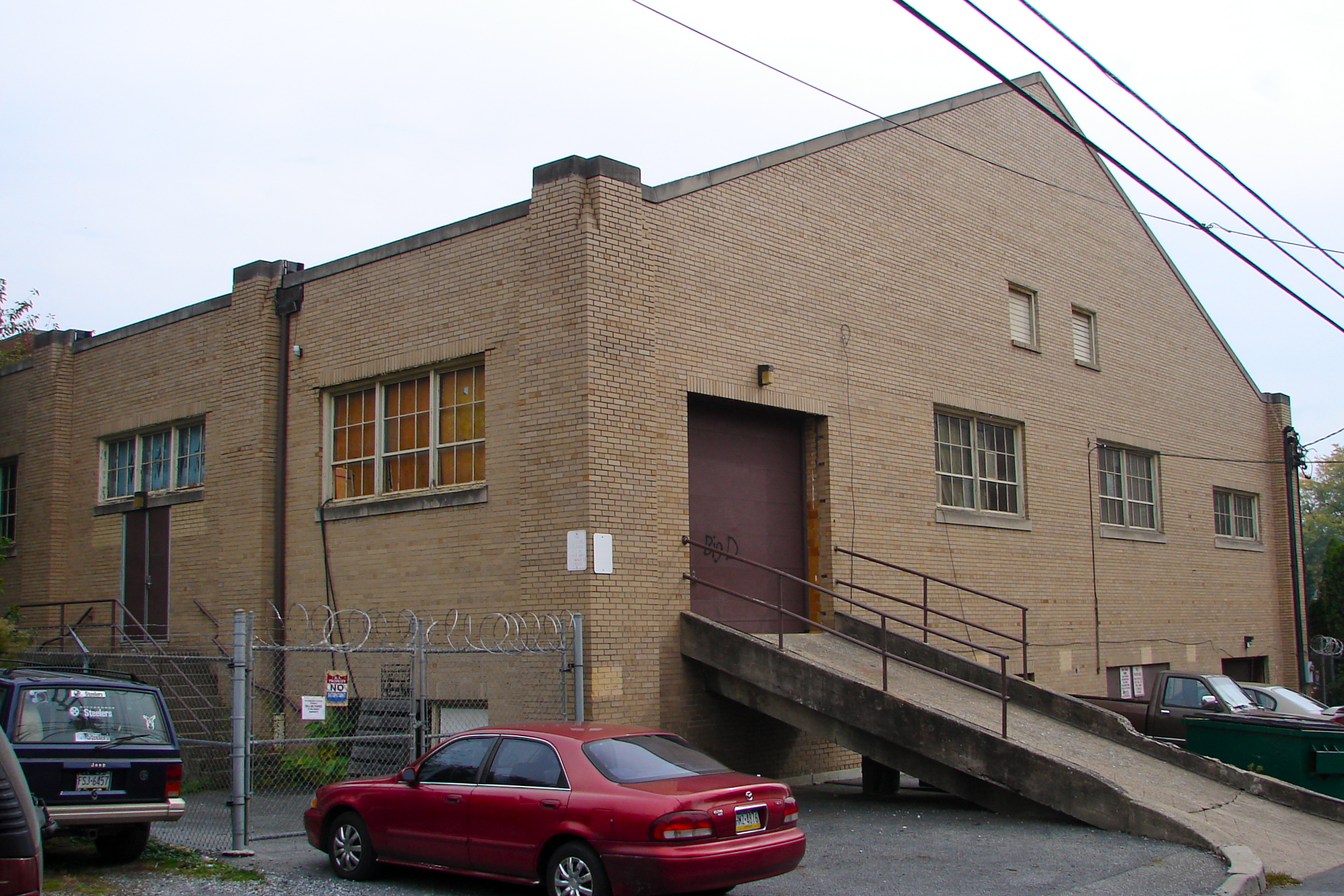 Lancaster Armory on the NRHP since November 14, 1991. At 438 North Queen Street, in the Ross neighborhood of Lancaster, Pennsylvania. Now used by a theater group.